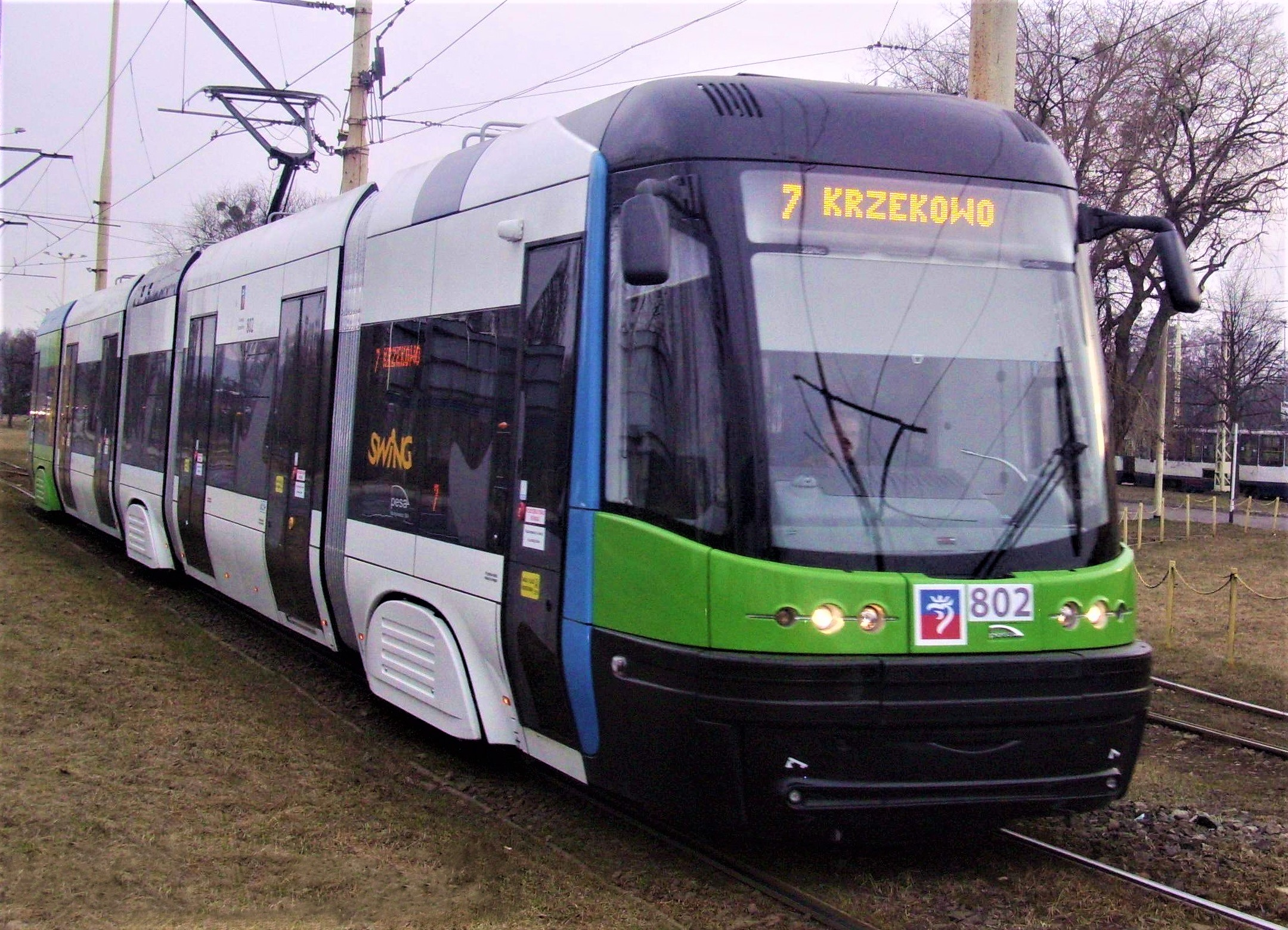 A new low-floor PESA 120Na tram at line 7 in Szczecin, Poland